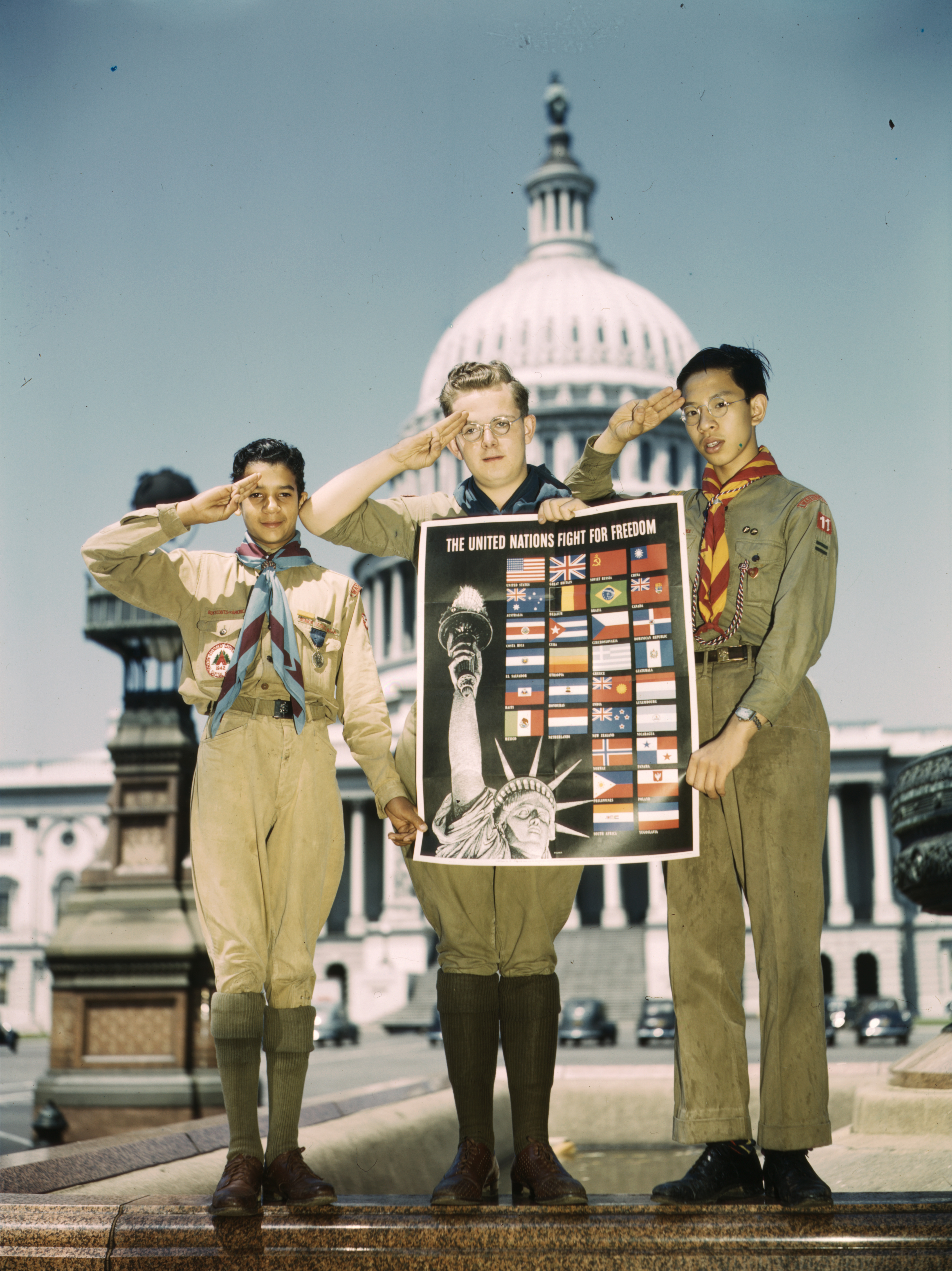 Rous, John,, photographer. United Nations Fight for Freedom: colored, white and Chinese Boy Scouts in front of Capitol, They help out by delivering poster to help the war effort [1941 July?] 1 transparency : color. Notes: Title from FSA or OWI agency caption. Transfer from U.S. Office of War Information, 1944. Subjects: United States Capitol (Washington, D.C.) Boy Scouts of America Posters African Americans--Children Chinese Americans--Children Capitols World War, 1939-1945 United States--District of Columbia--Washington (D.C.) Format: Transparencies--Color Repository: Library of Congress, Prints and Photographs Division, Washington, D.C. 20540 USA, Part Of: Farm Security Administration - Office of War Information Collection 12002-49 (DLC) 93845501 General information about the FSA/OWI Color Photographs is available at Persistent URL: Call Number: LC-USW36-473